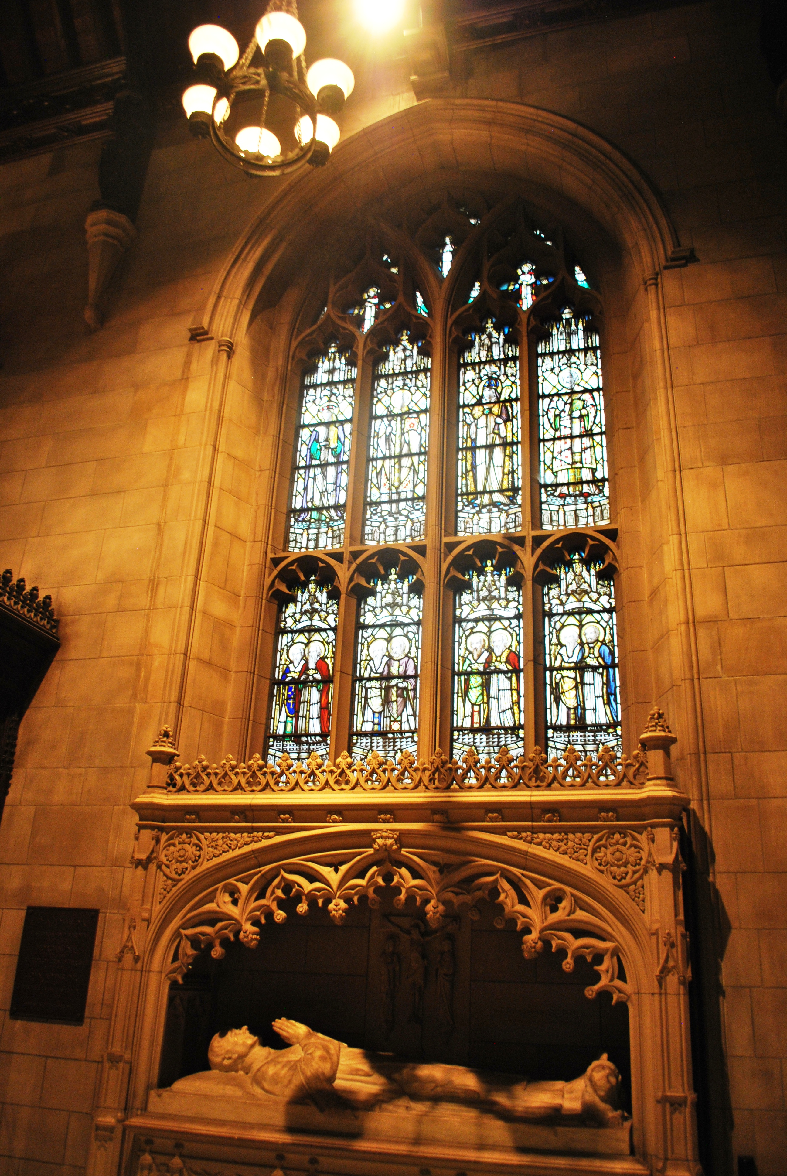 Image originally published in Queer Places: Retracing the Steps of LGBTQ people around the World Authored by Elisa Rolle